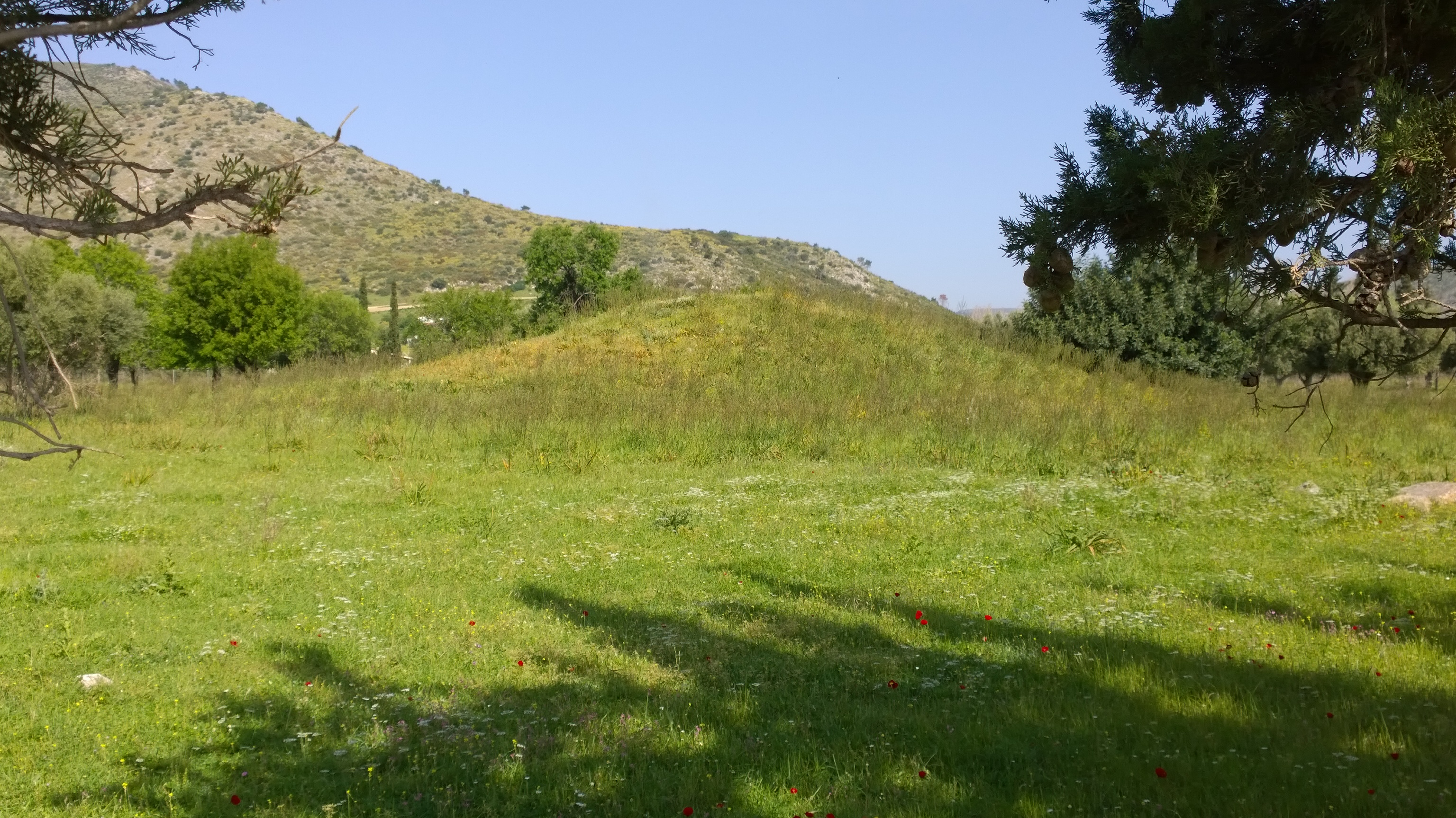 Tumulus of the Plataeans - Vranas, Marathon - April 2015